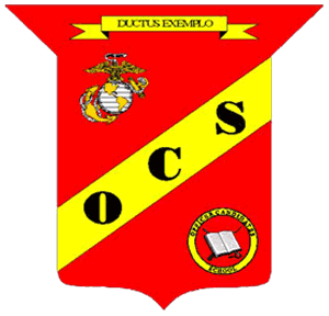 Logo for the United States Marine Corps Officer Candidates School Source: USMC Officer Candidates School website